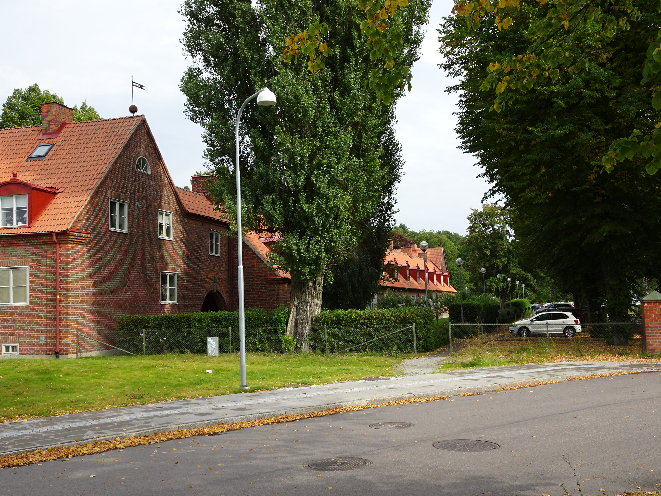 Mälarparken, a district in Västerås.